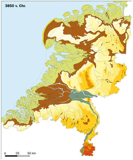 Palaeography of the Netherlands 3850 BC